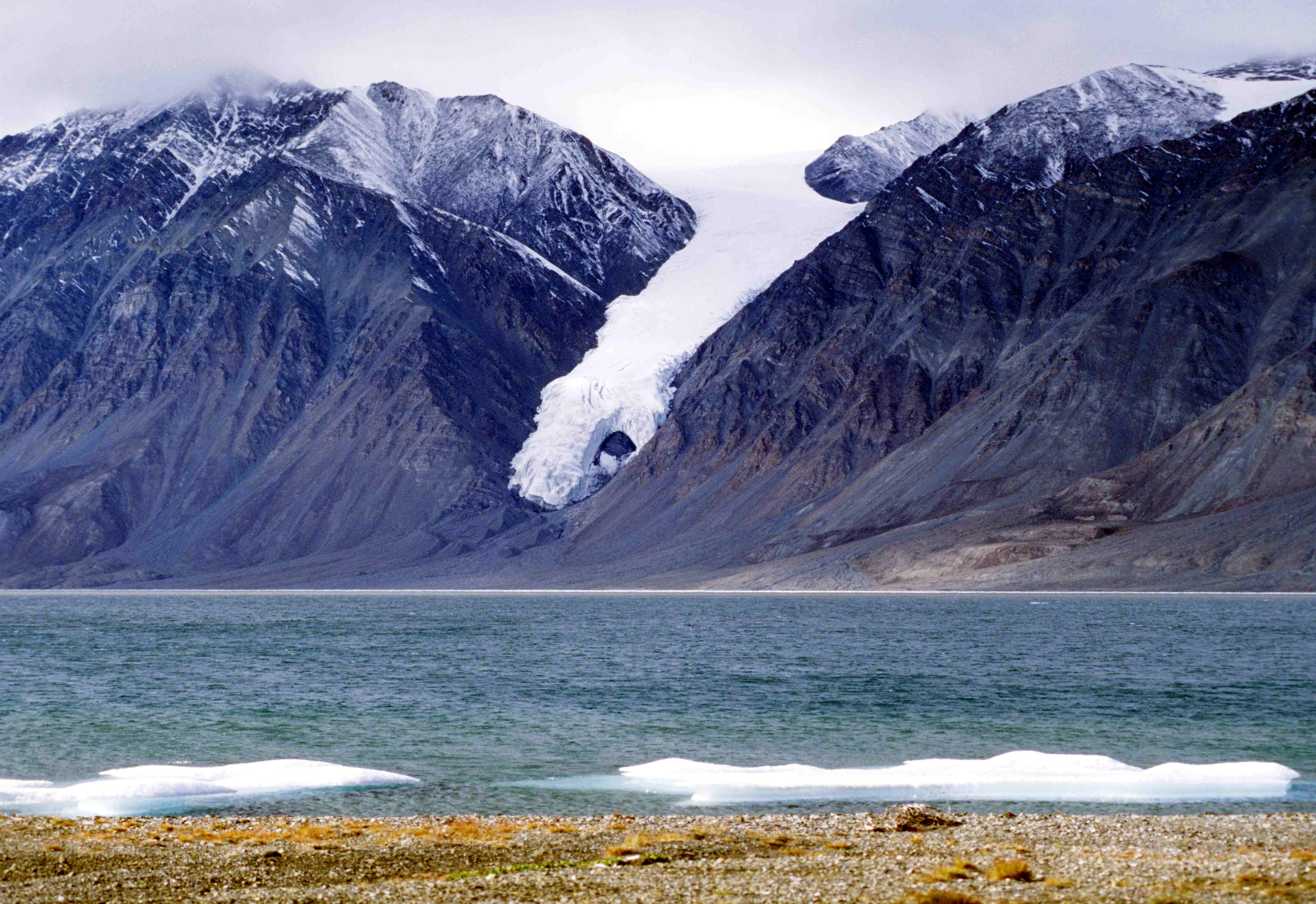 Gull Glacier ("Hand of God") at Tanquary Fiord opposite to Parks Canada campsite; Quttinirpaaq National Park, Nunavut, Canada